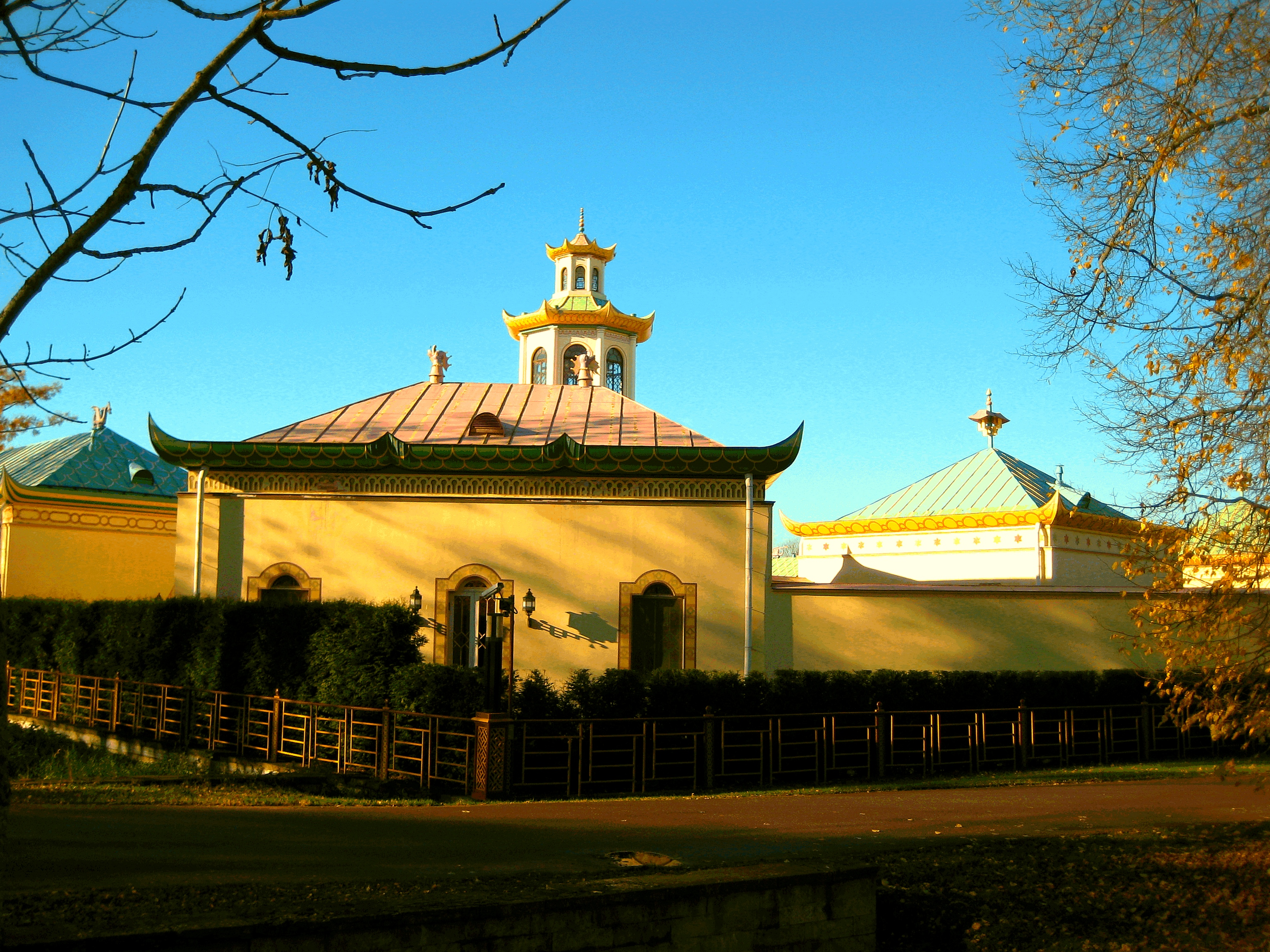 Chinese village: Alexander Park, Pushkin. Pushkin district, St. Petersburg.